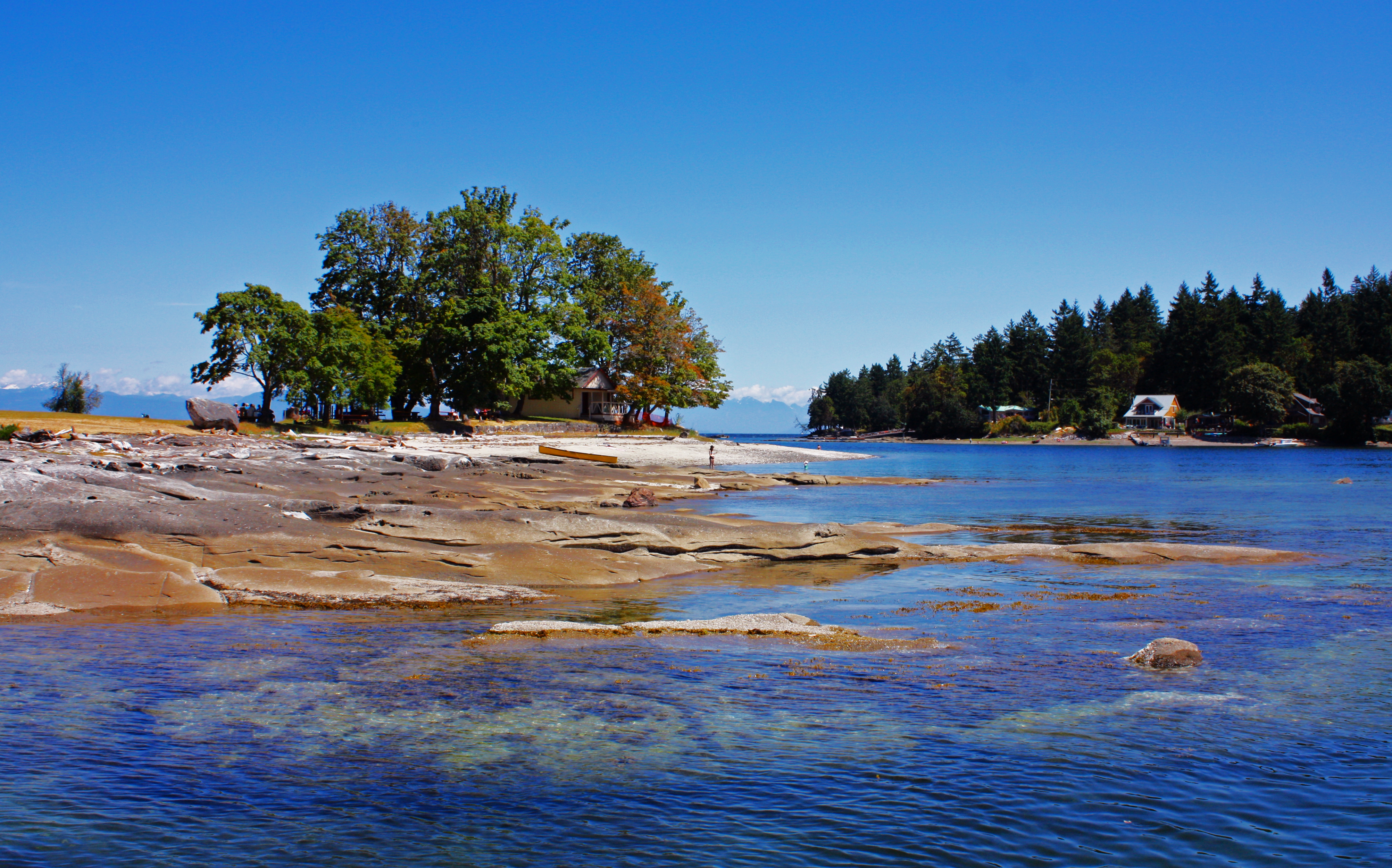 Newcastle Island, a small island in Nanaimo Harbour British Columbia, Canada